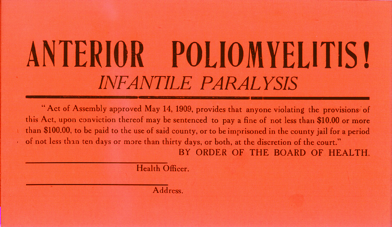 Anterior Poliomyelitis, This cardboard placard (sign) was placed in windows of residences where patients were quarantined due to poliomyelitis. 16.3 cm (6.4 in) x 27.8 cm (11 in).